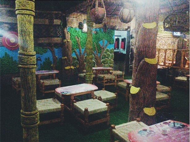 Sudanese Traditional layout for Katkout Restaurant in Omdurman, Khartoum